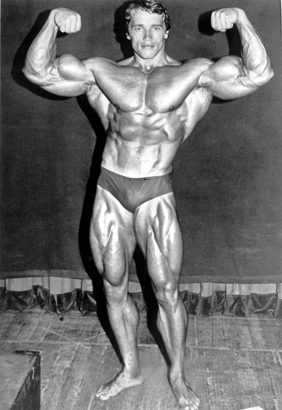 Photo of Arnold Schwarzenegger before defending the title for his fifth Mr. Olympia contest in 1974.